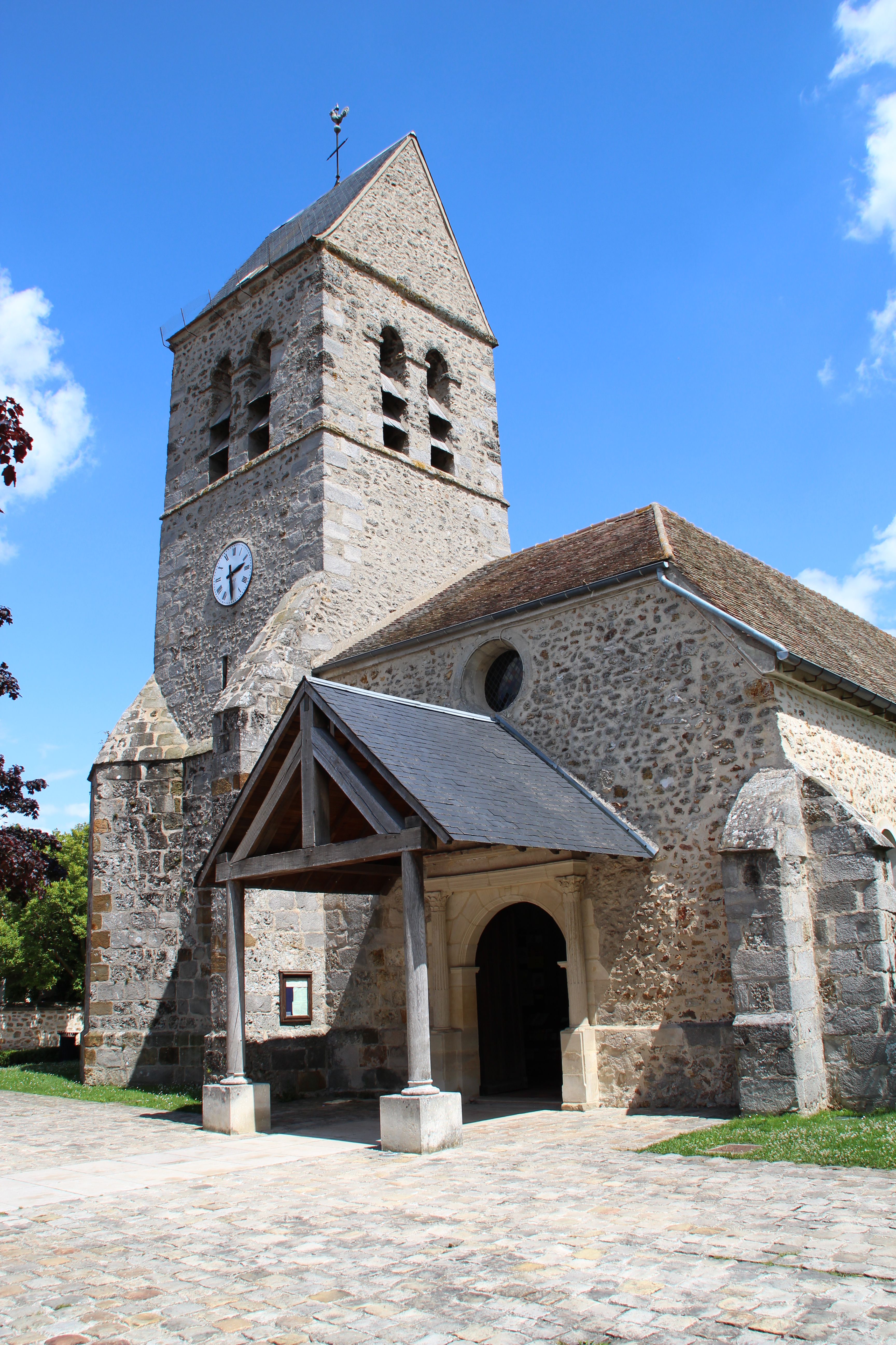 Saint-Martin church in Montigny-le-Bretonneux, France.